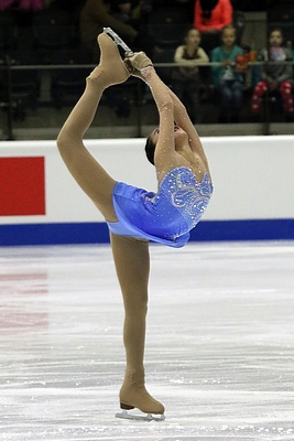 Junior World Championships 2015 – Ladies (Da Bin CHOI KOR – 9th Place)